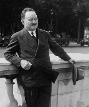 French novelist André Demaison (1883-1956).